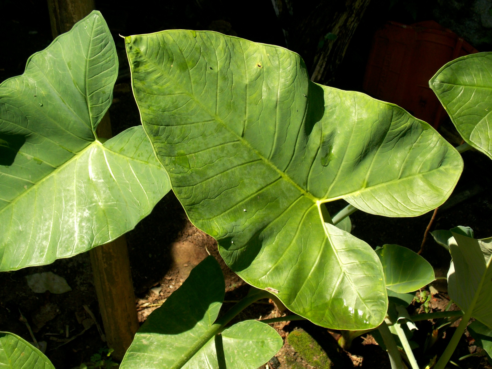 Tannia, Xanthosoma sagittifolium; leaves. From Bogor, West Java, Indonesia.